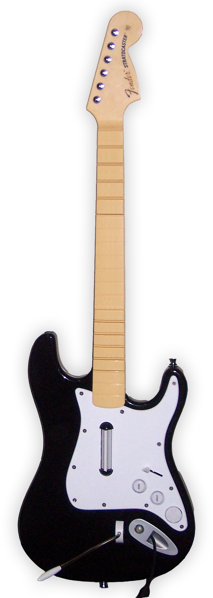 Self-taken photo of Rock Band Fender Stratocaster guitar controller. I release it into the public domain.